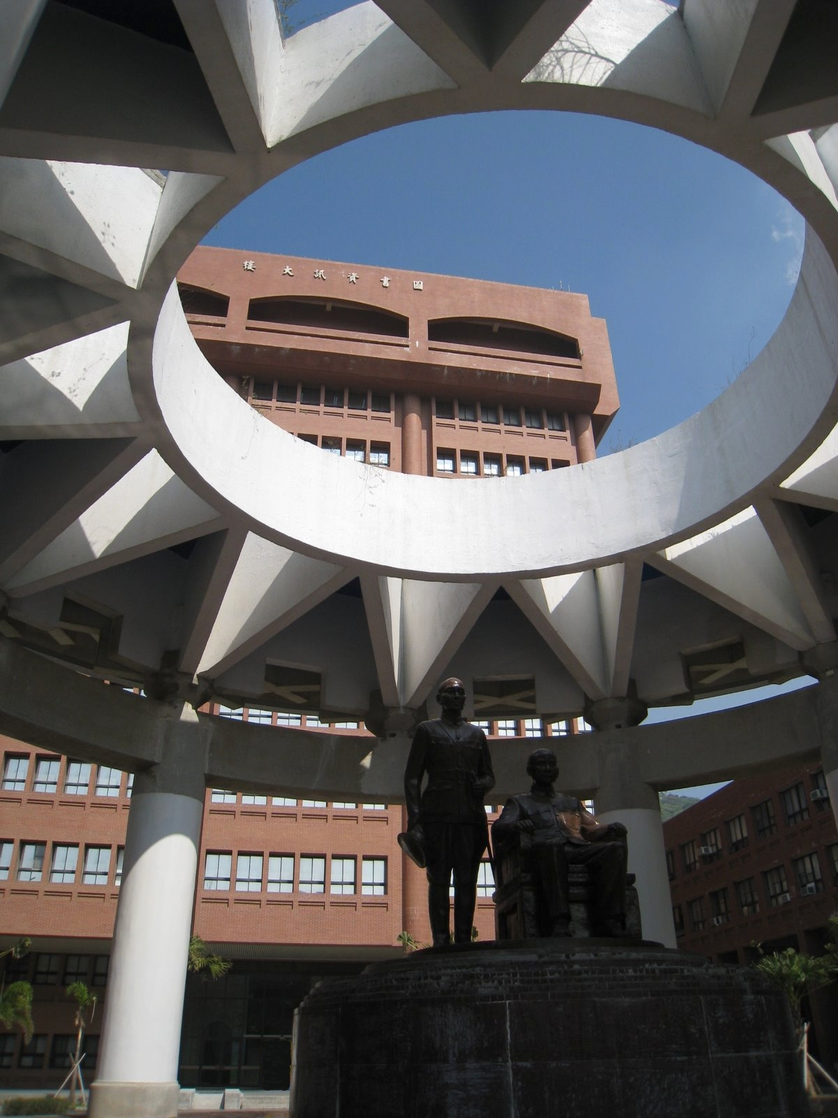 National Sun Yat-sen University in Taiwan